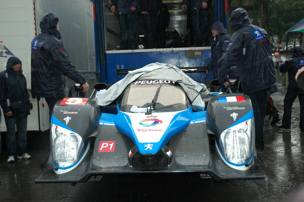 Team Peugeot Total's Peugeot 908 HDi FAP at scrutineering for the 2009 24 Hours of Le Mans